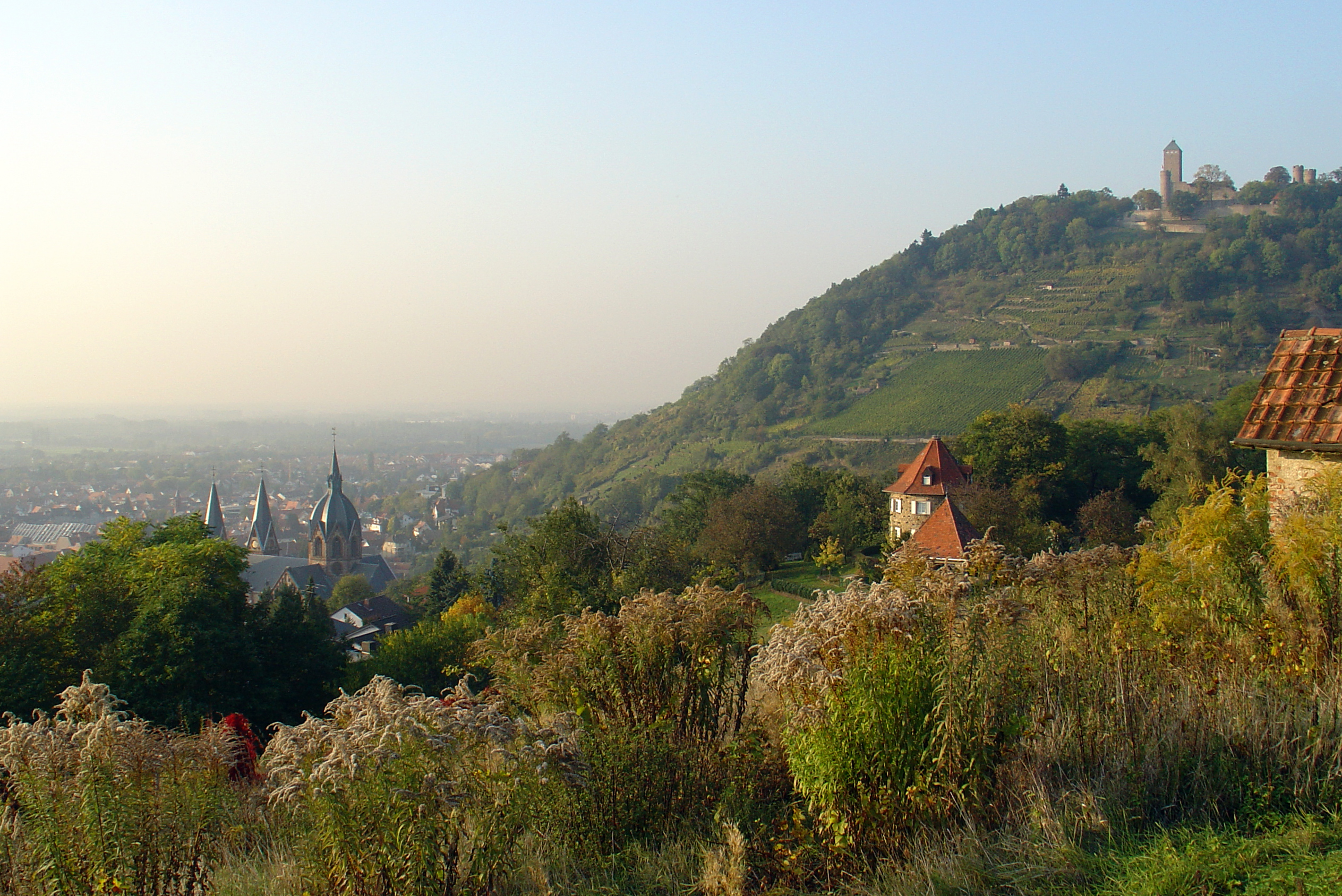 Heppenheim, Germany Photographer: Marco Mayer Picture taken: October 13th, 2005